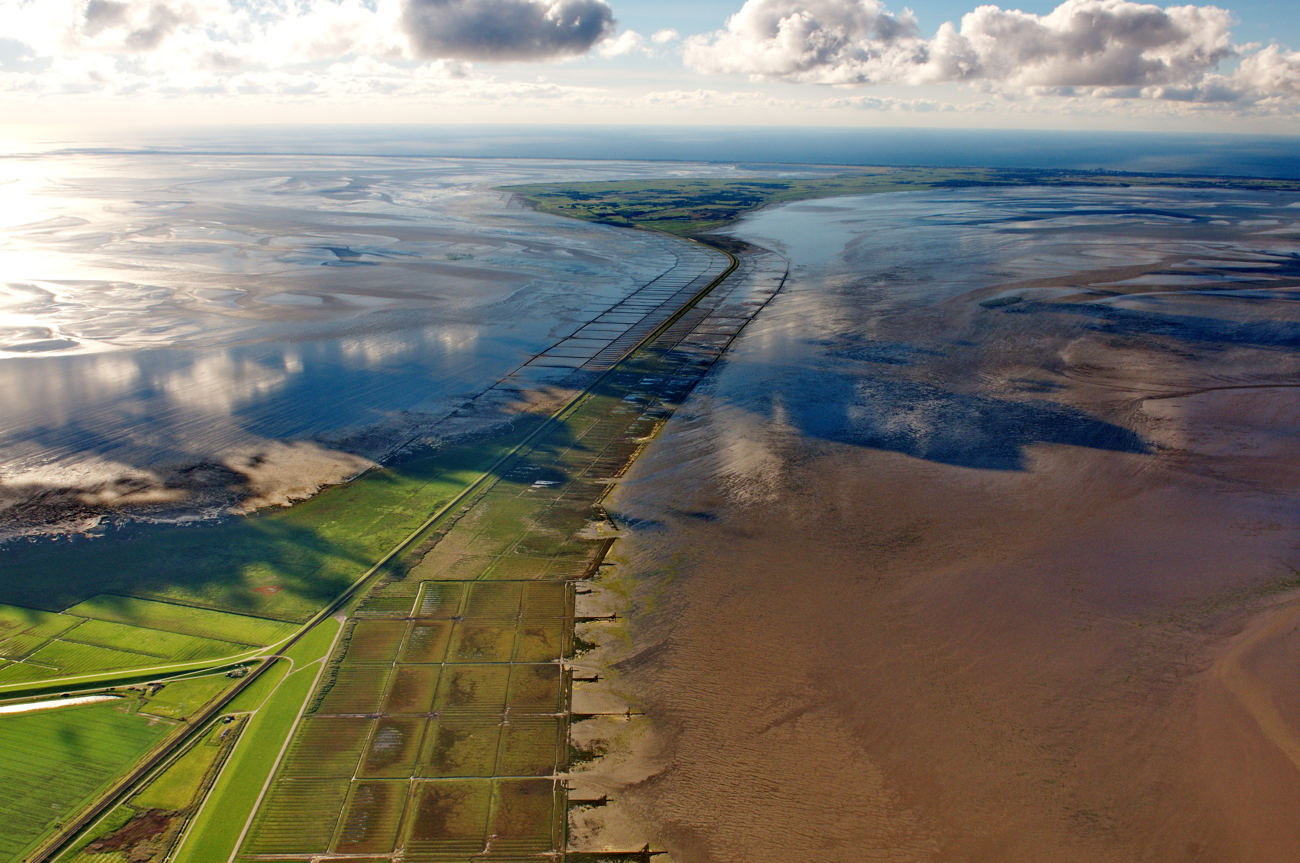 Hindenburgdamm to isle Sylt, Germany